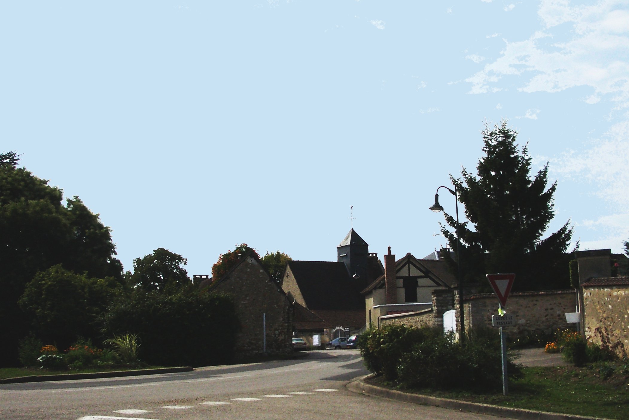 La Chapelle Réanville (Eure)